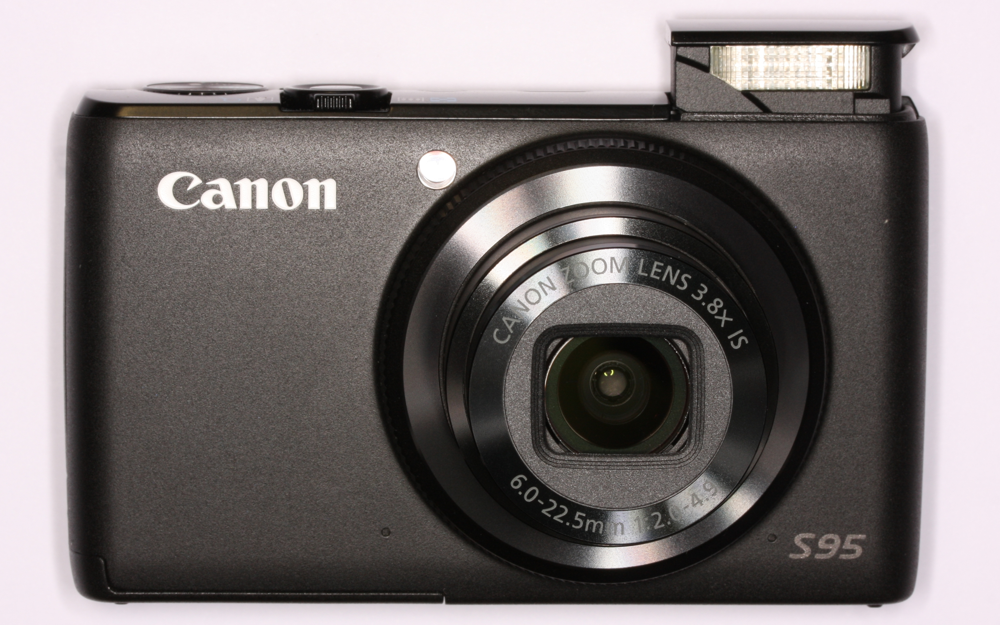 The front side of a turned on Canon PowerShot S95 with flash up